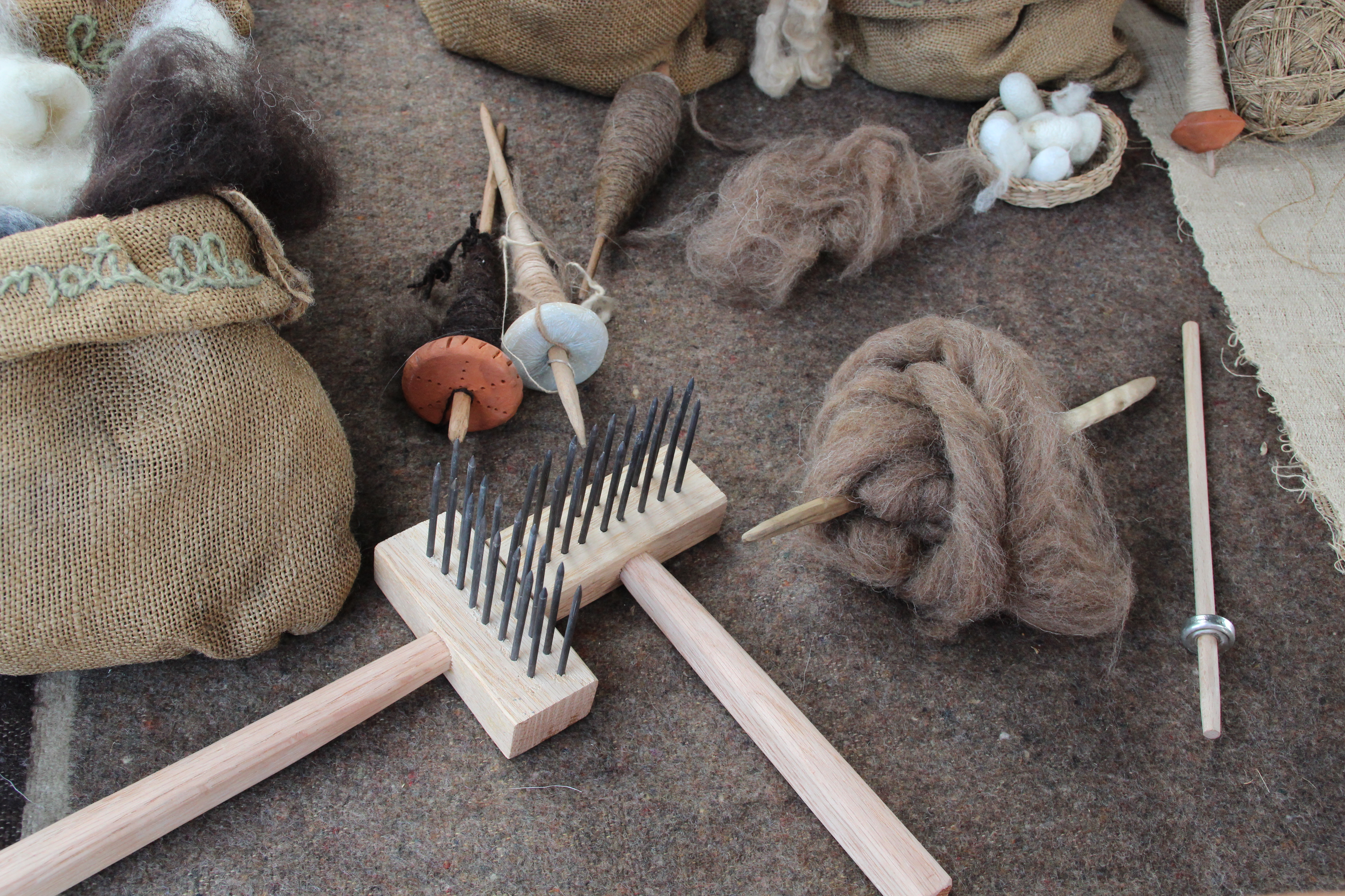 Archaeological site next to the industrial area SudEssor on the highway 20 at the entrance of Morigny-Champigny, France.